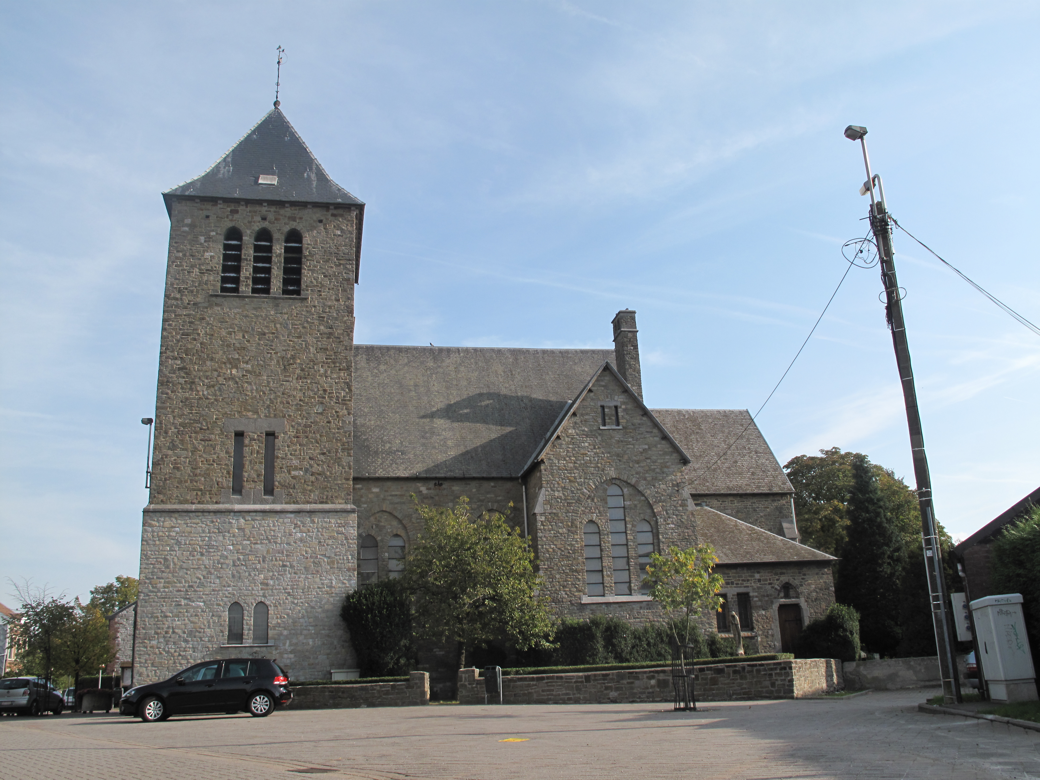 Magnée, church: église Saint-Antoine